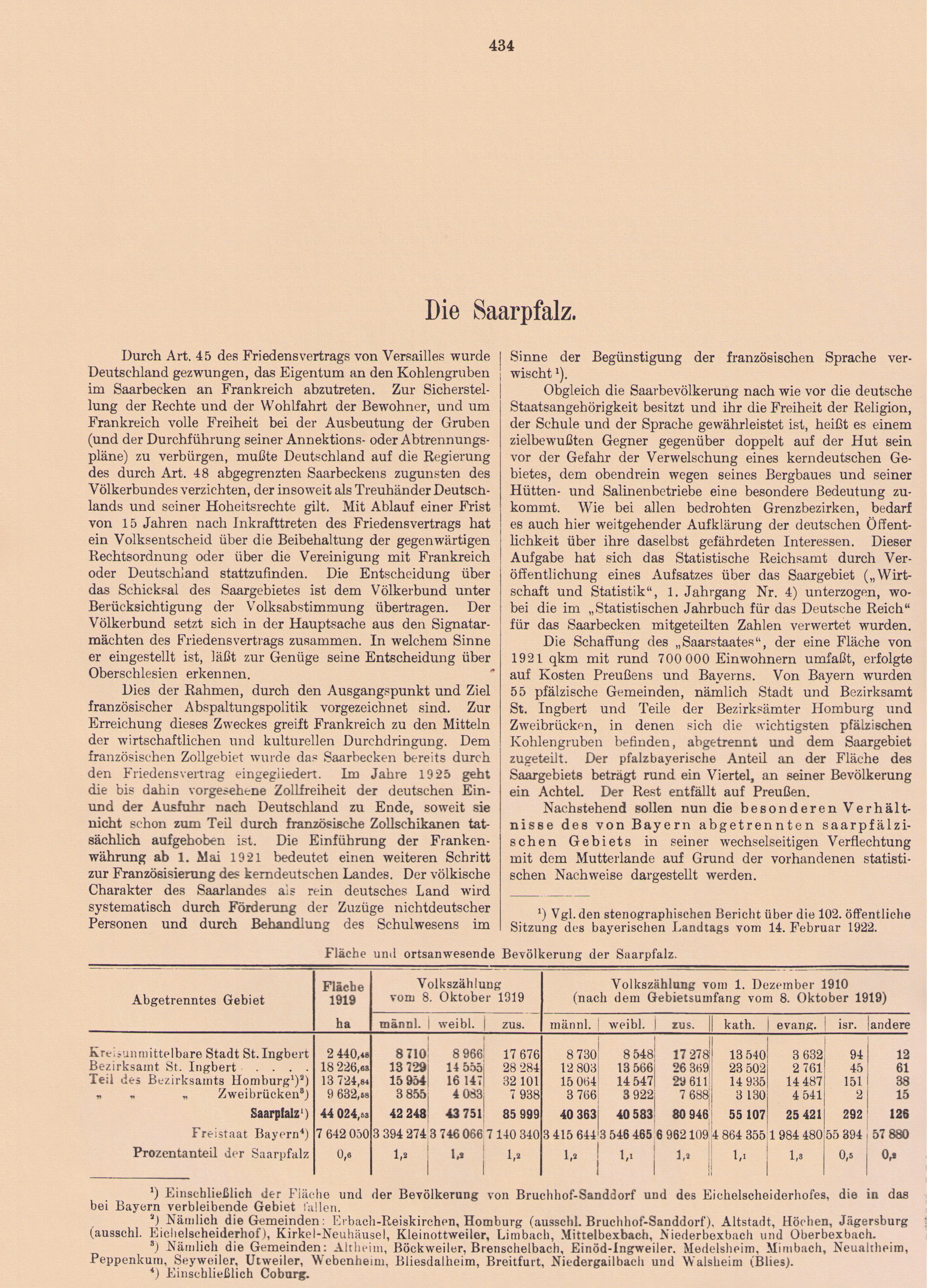 first usage of term "Saarpfalz" (taken from Bavarian region "Pfalz" to be added to newly created Saar area (larger rest was taken from Prussia, by Treaty of Versailles)